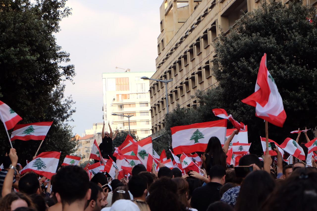 Beirut protests 2019